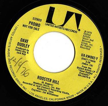 Rooster Hill by Dave Dudley, United Artists 1976.